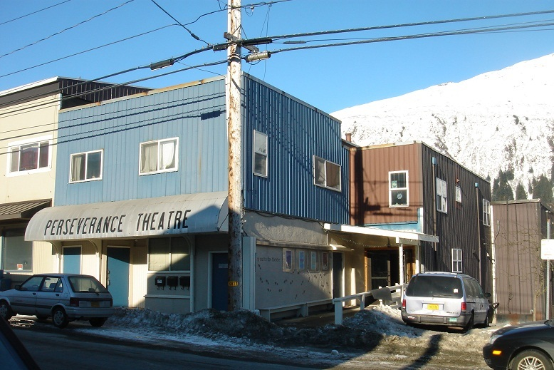 Perseverance Theatre on March 6, 2011, the day of the opening of Oscar Wilde's The Importance of Being Earnest